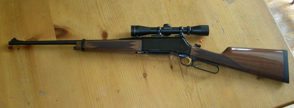 Browning BLR lever action hunting rifle.